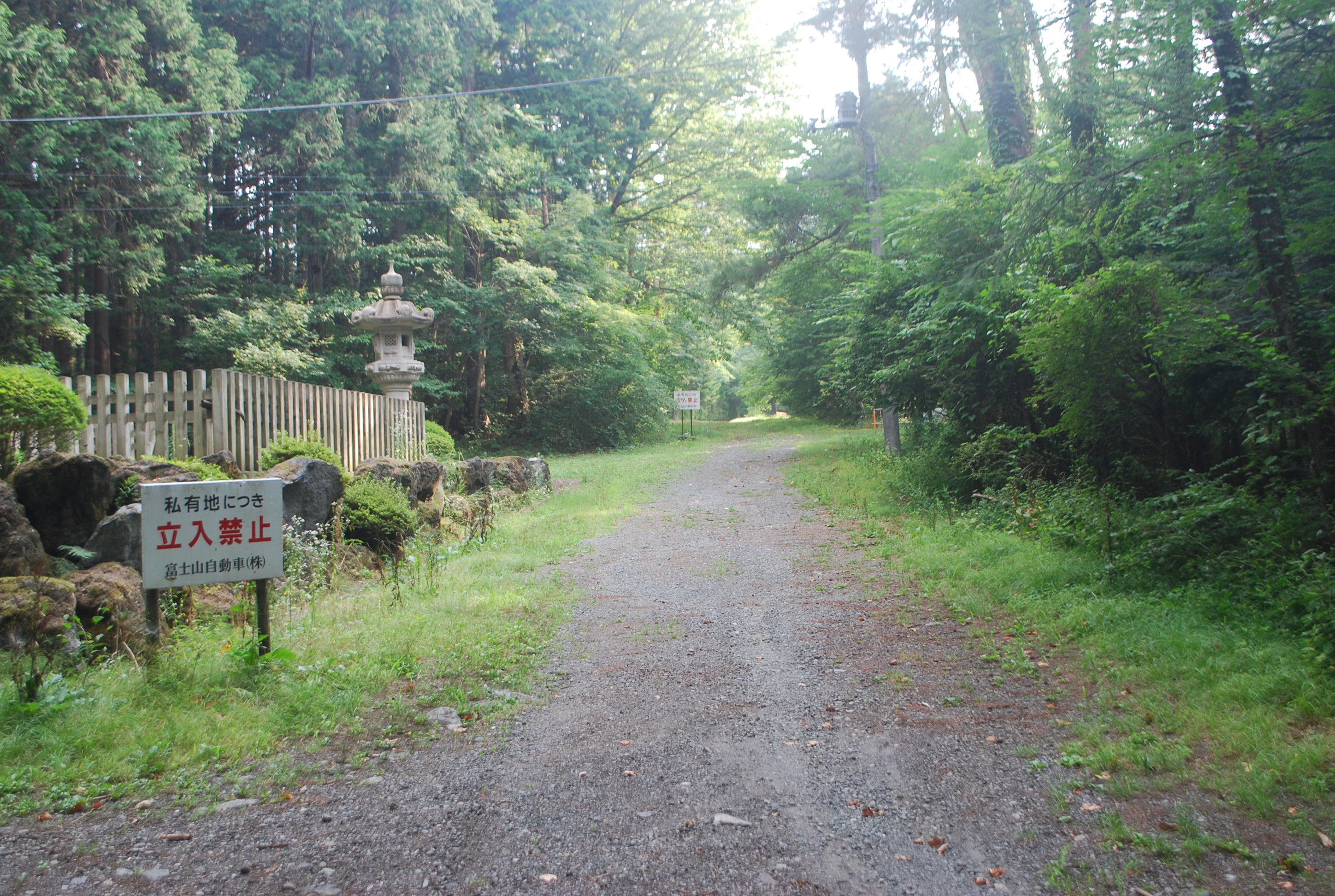 Marks in Mt. Fuji Expressway,Fuji-yoshida-city,Japan